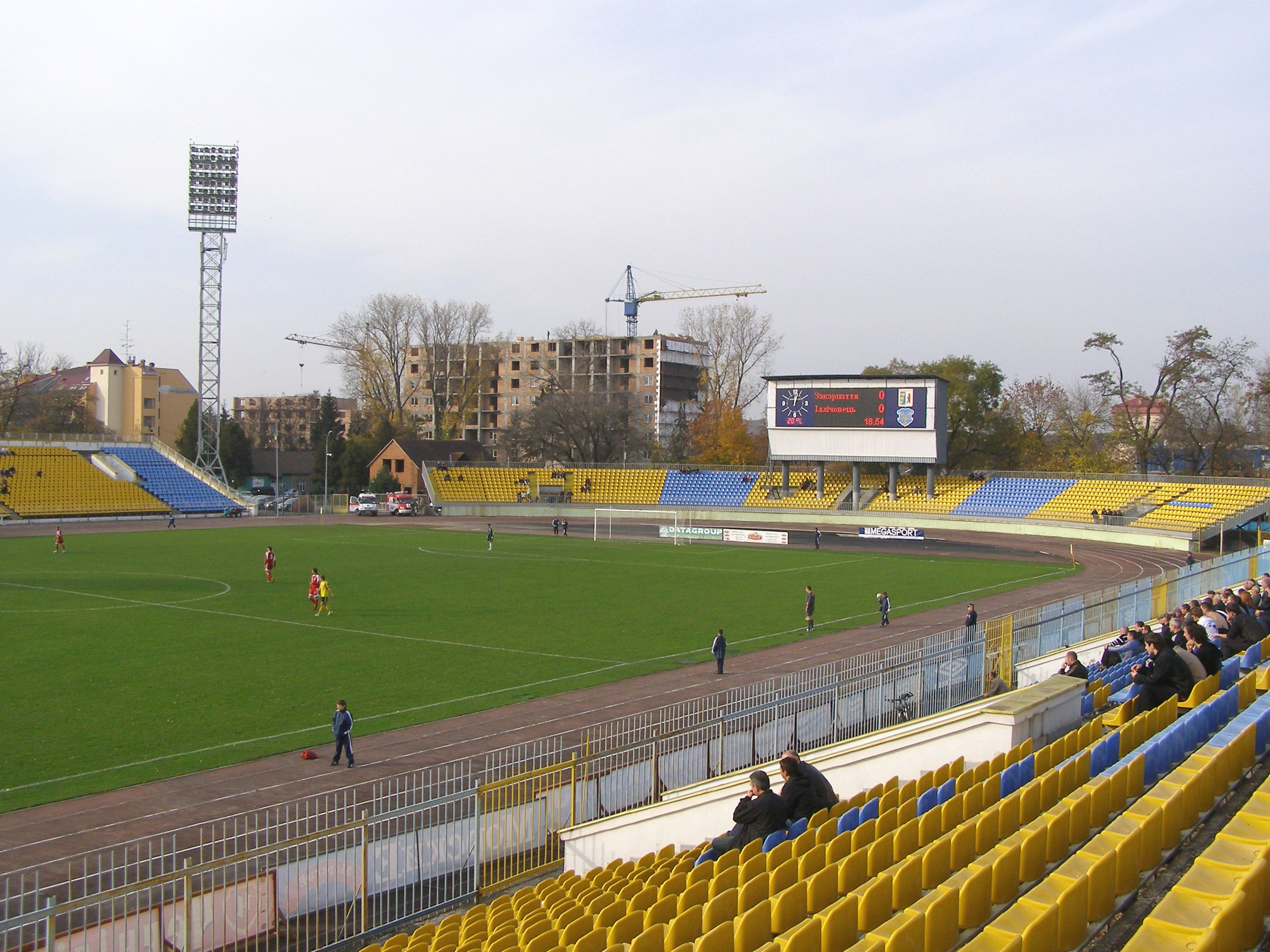 Avangard Stadium (Uzhhorod)